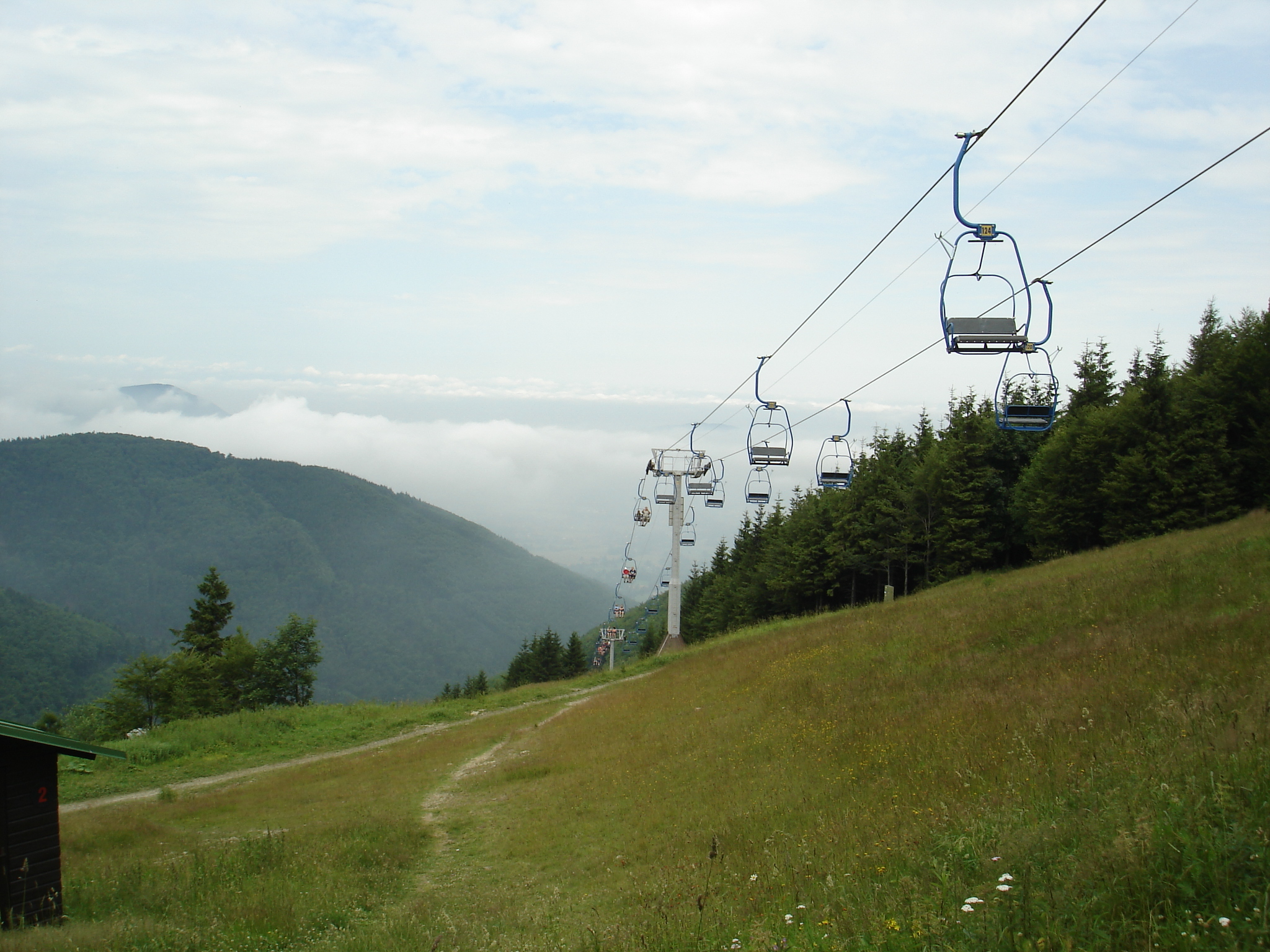 Pustevny-lanová dráha